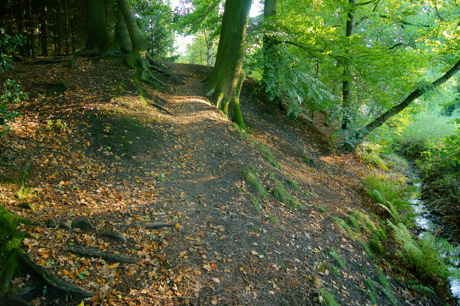 Hünenburg is a medieval fort near Stadtlohn, North Rhine-Westphalia, Germany.